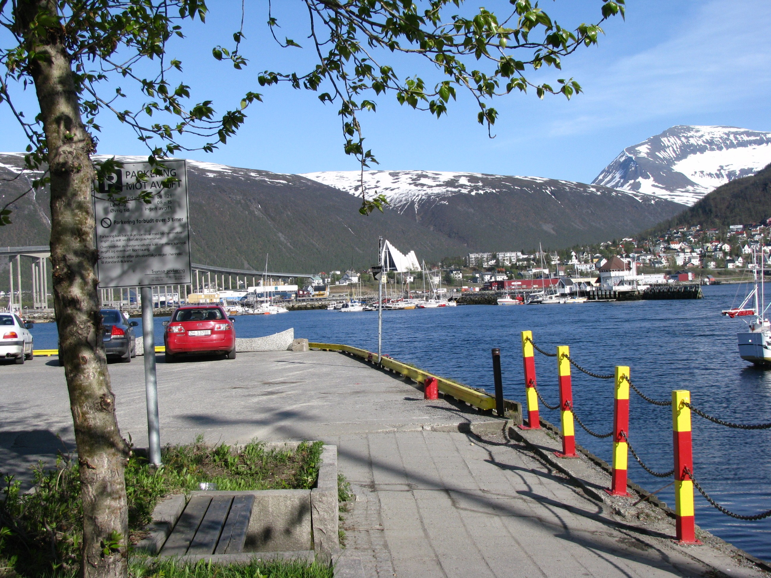 Late May in Tromsø, Norway. The two month period with midnight sun has just started. Left in picture is the Tromsø Bridge and in the foreground an aspen (Populus tremula) tree. In the center of the image, across the Tromsø sound (fjord) is the Arctic cathedral (Ishavskatedralen), and further away snow covered mountains. Right in picture the Tromsdalstinden mountain (1238 m/ 4100 ft).